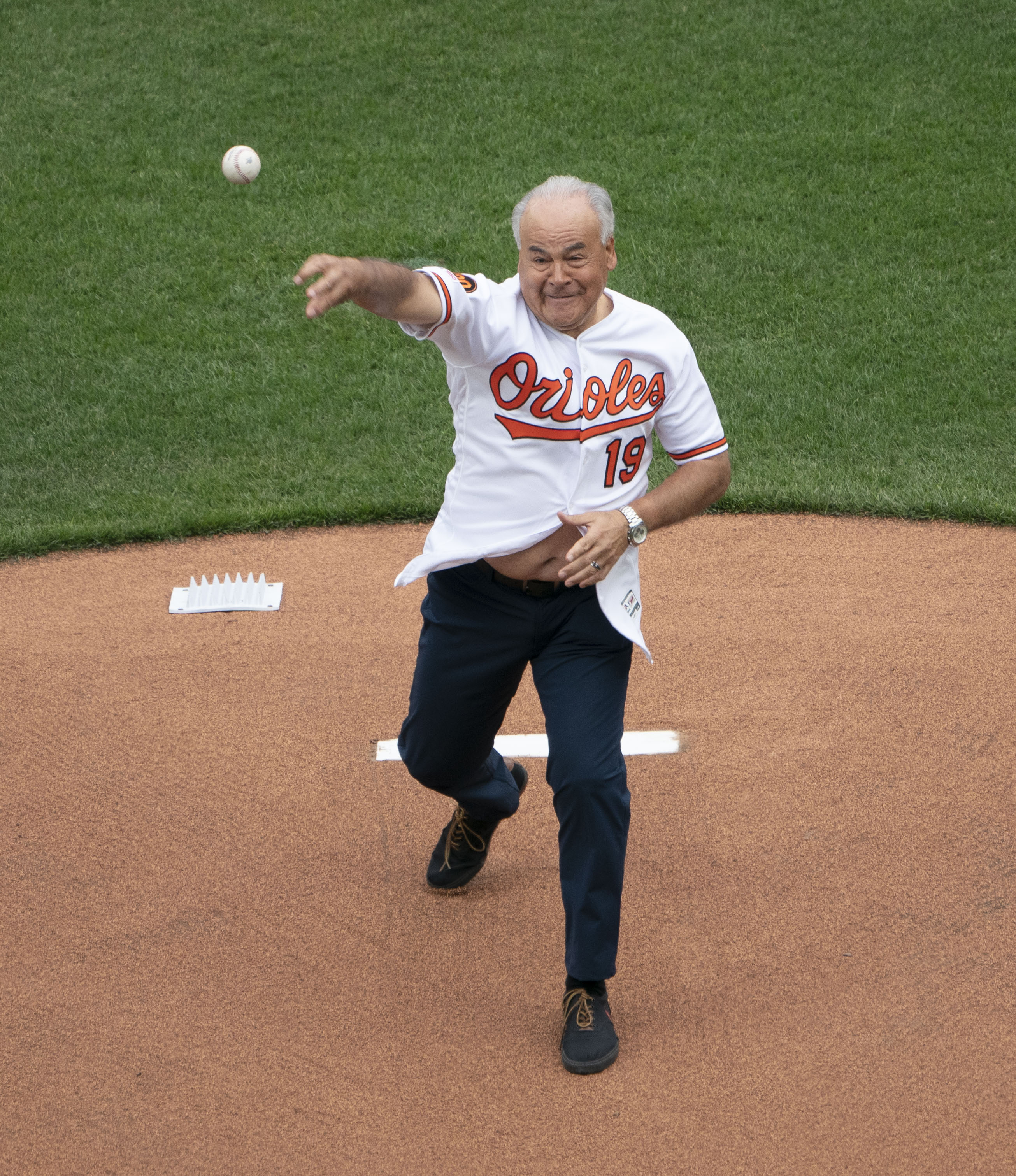 Retired Baltimore Orioles broadcaster Joe Angel throws out the ceremonial first pitch before a game against the New York Yankees at Oriole Park at Camden Yards on April 04, 2019 in Baltimore, Maryland